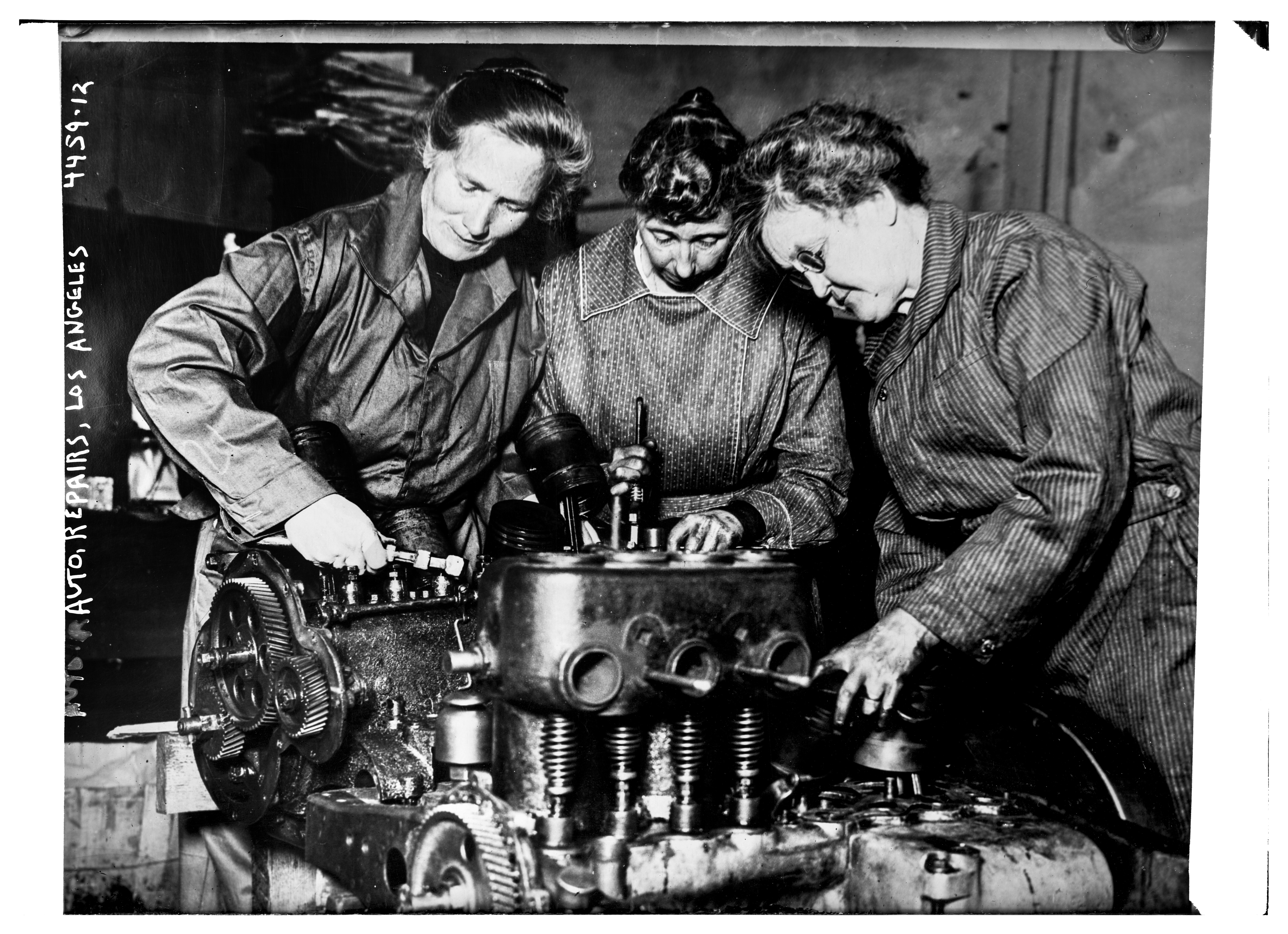 Bain News Service,, publisher. Auto repairs, Los Angeles [between ca. 1915 and ca. 1920] 1 negative : glass ; 5 x 7 in. or smaller. Notes: Title from unverified data provided by the Bain News Service on the negatives or caption cards. Forms part of: George Grantham Bain Collection (Library of Congress). Format: Glass negatives. Repository: Library of Congress, Prints and Photographs Division, Washington, D.C. 20540 USA, General information about the Bain Collection is available at Higher resolution image is available (Persistent URL): Call Number: LC-B2- 4459-12